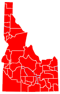 County results of Republican sweep of Idaho